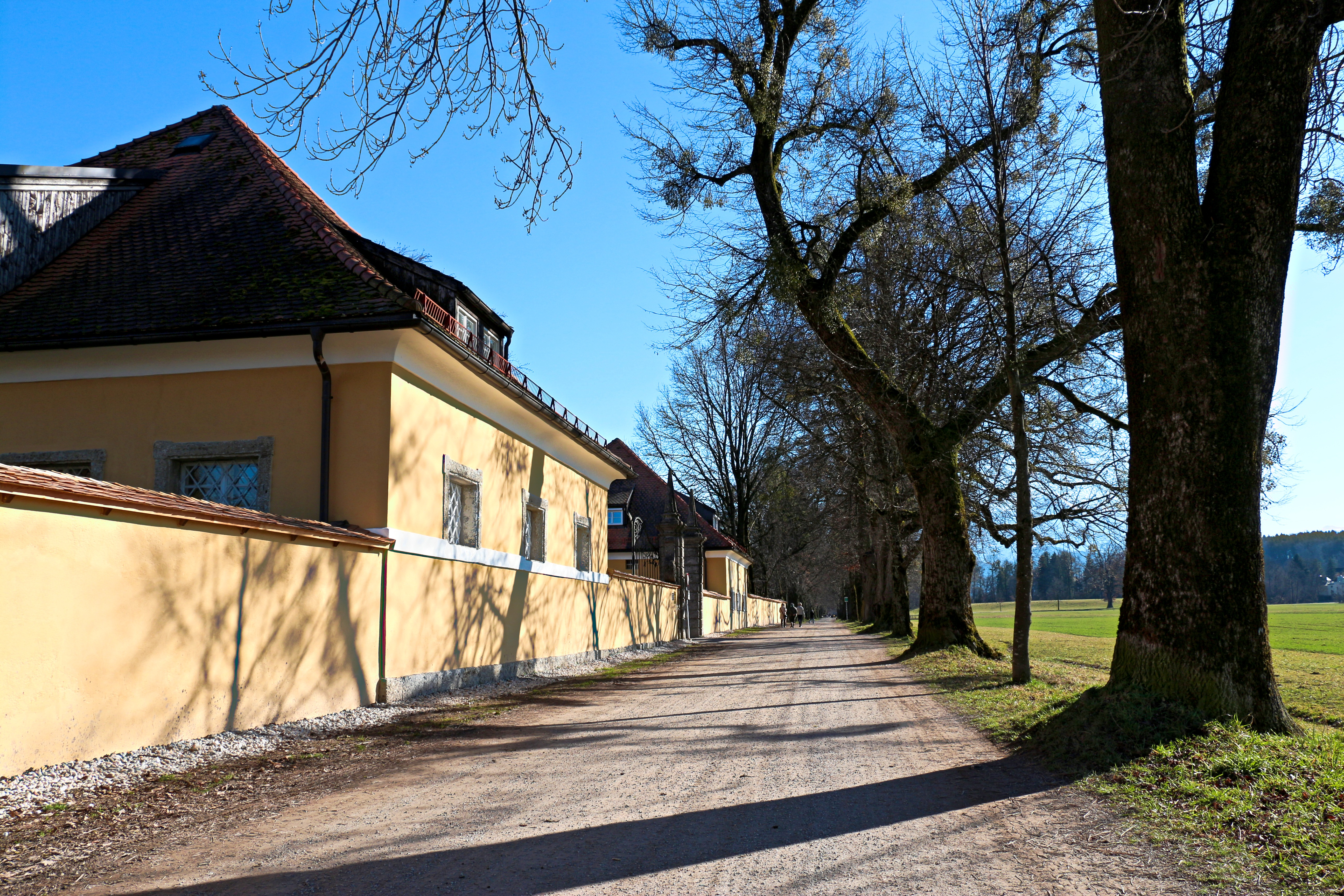 Fronburg Castle, city of Salzburg, Austria